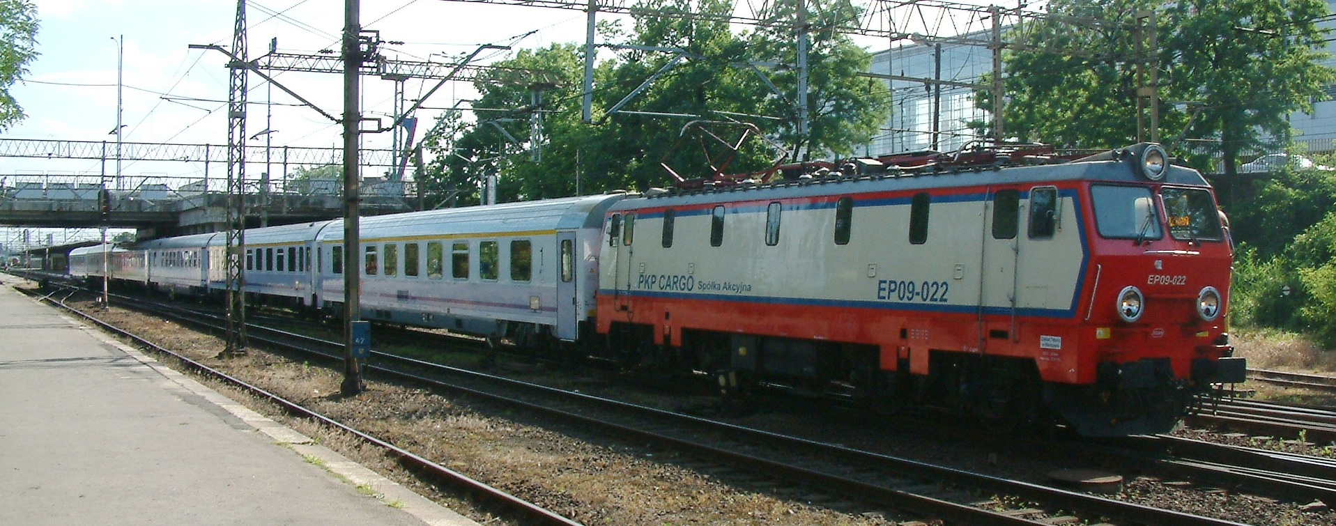 Train pulled by EP09-022 locomotive leaving Poznań Główny station, Poland.